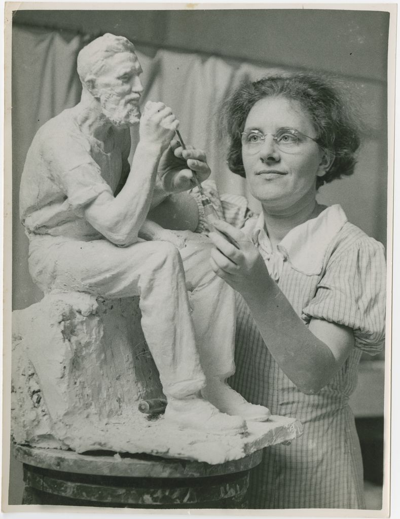 Daphne Mayo in her studio (UQFL119 b3f15 03)